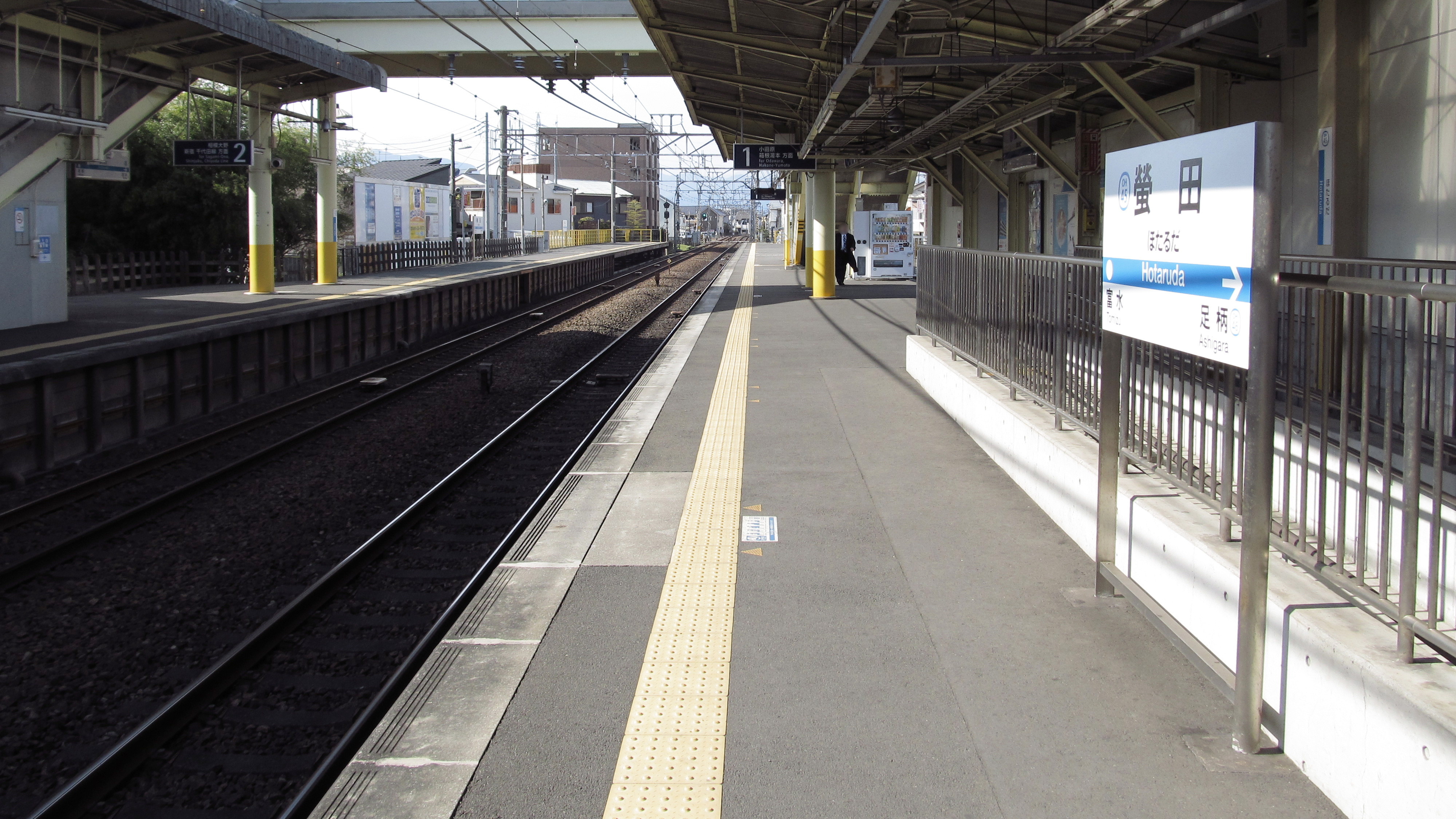 The platforms at Hotaruda Station on the Odakyū Electric Railway Odawara Line in Odawara city, Kanagawa, Japan